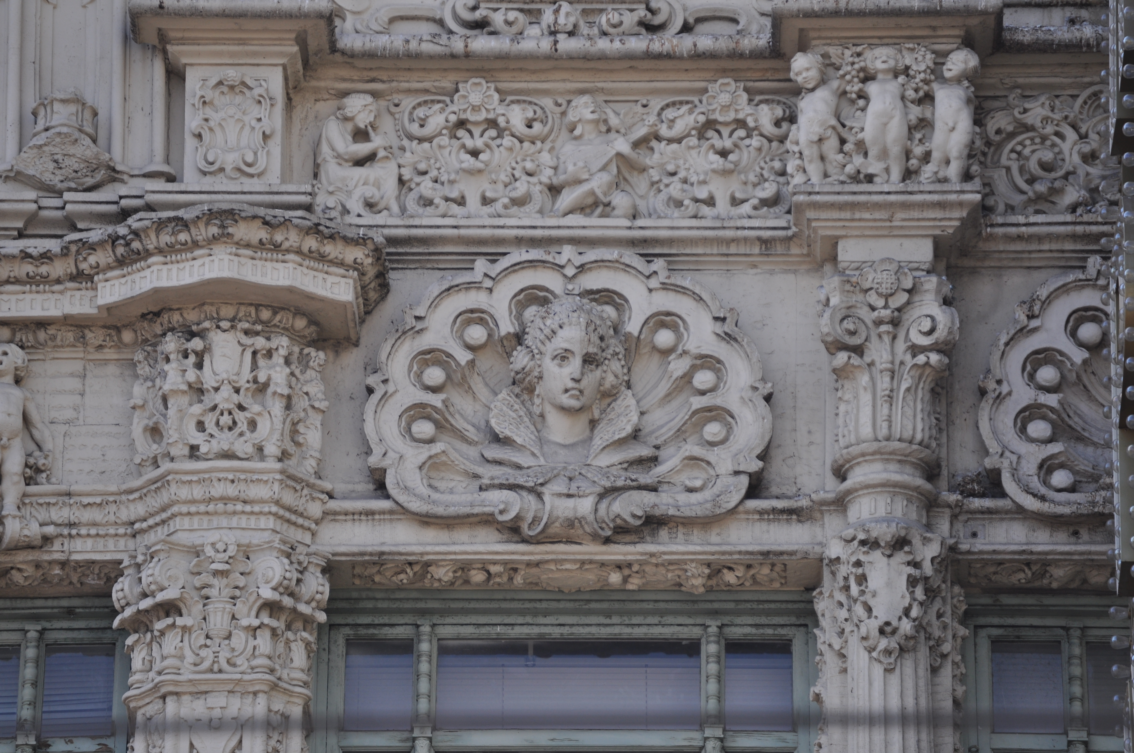 Terracotta relief of a woman over left side of marquee, Orpheum Theatre, 1192 Market Street, San Francisco, California, USA.